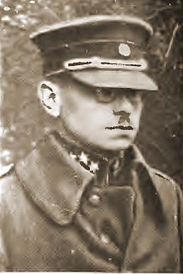 Mykola Sciborski(1897 – August 30, 1941) Ukrainian nationalist politician who served on the Provid, or central leadership council of the Organization of Ukrainian Nationalists (OUN), and who was its chief theorist. Here in uniform of captain of Ukrainian National Army (1920)